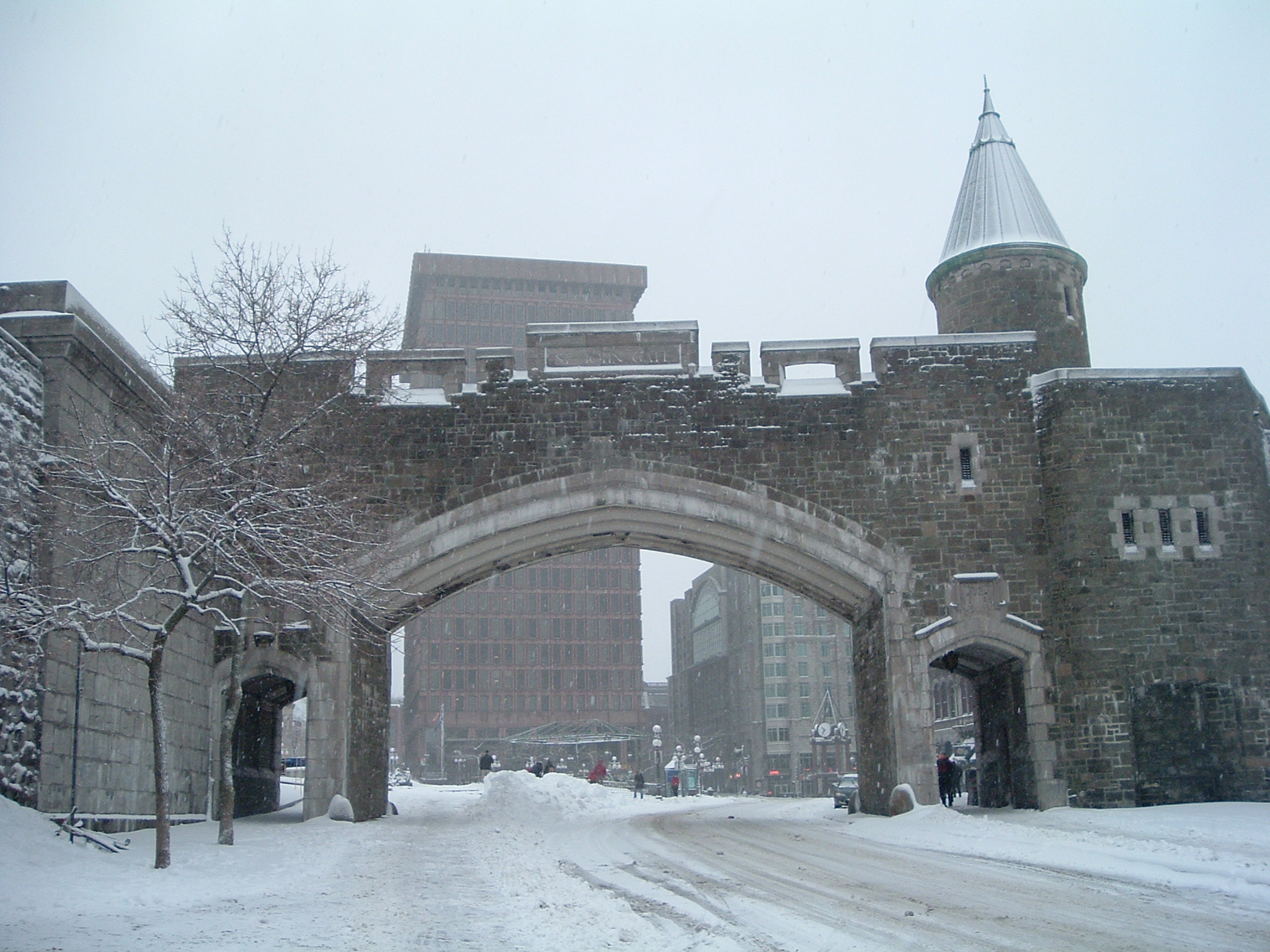 Porte St. Jean in Québec City on Boxing Day 2006, seen from inside, looking into the Place d'Youville